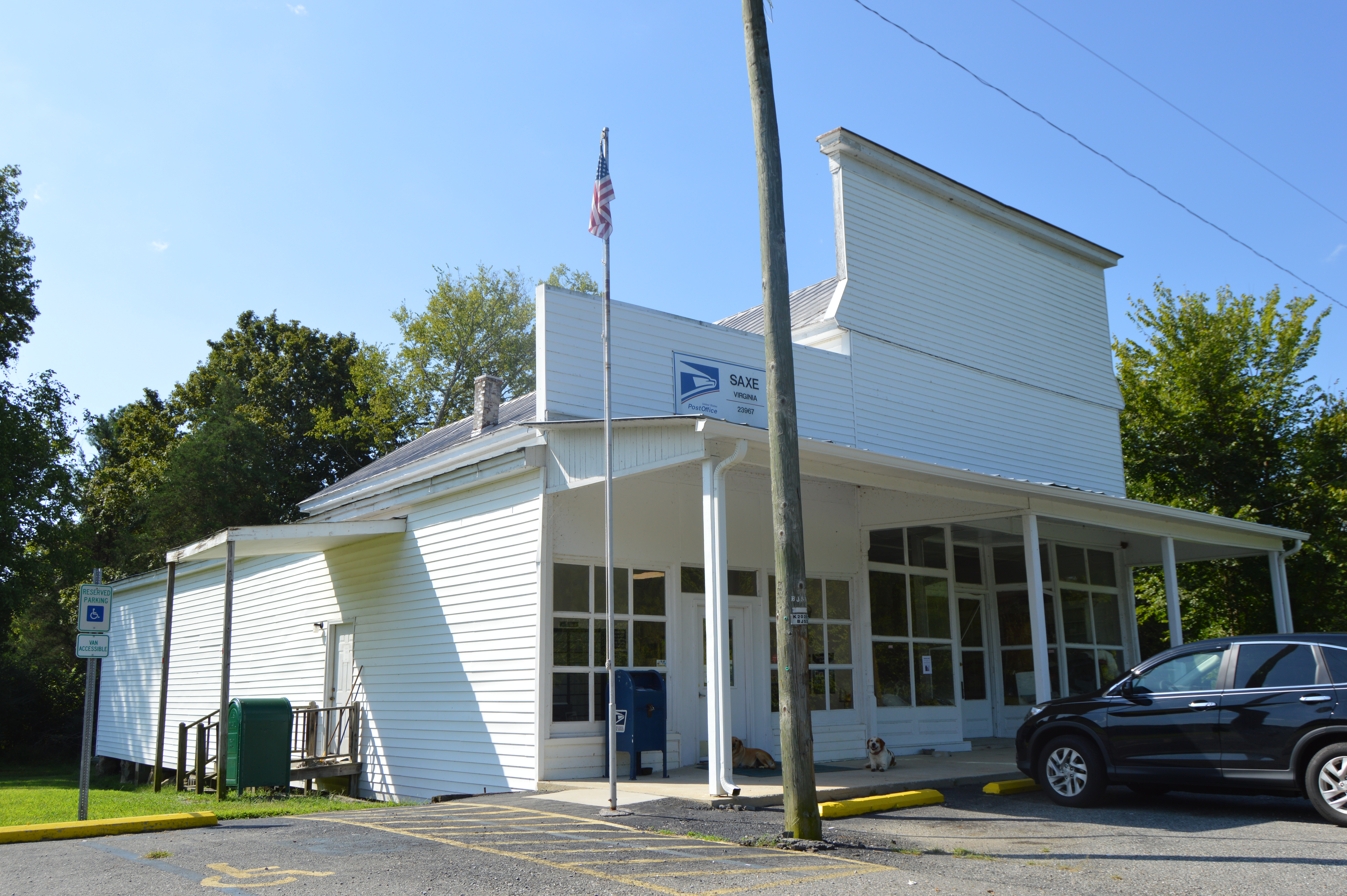 Front of the Saxe post office, located at 180 Hailey Road in Saxe, Virginia, United States.